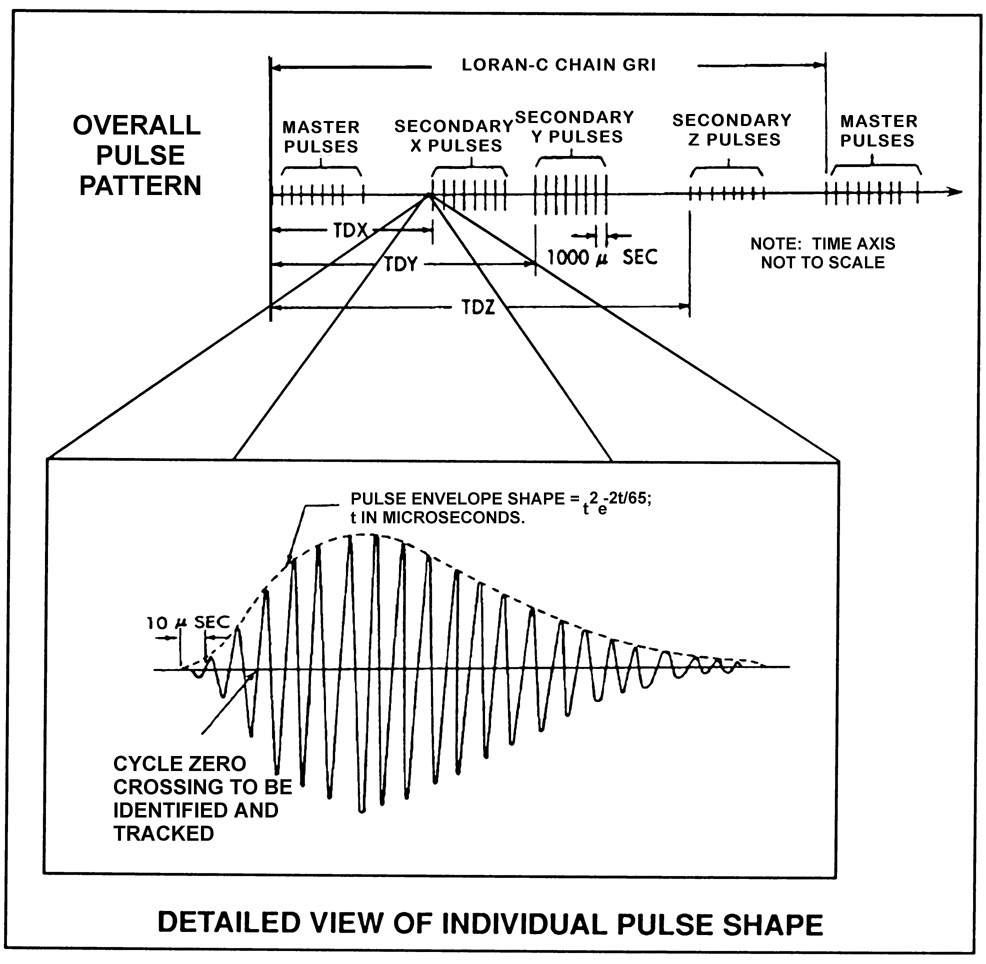 figure 1203a of APN2002